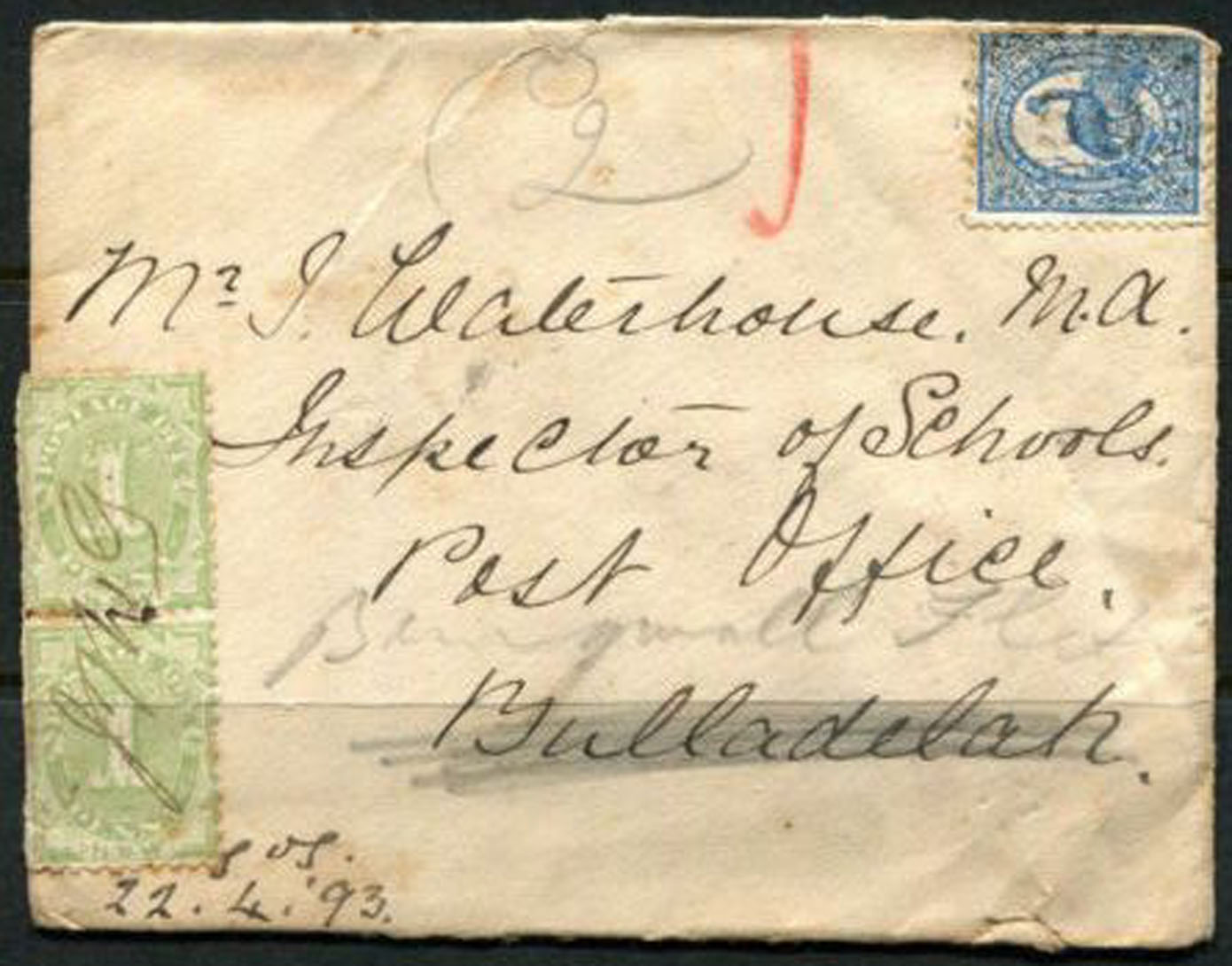 An underpaid letter from Dungog, NSW to John Waterhouse, the first headmaster of Sydney Boys High School, readdressed to Bungwall Flat (now Bungwahl) from Bulahdelah nearby